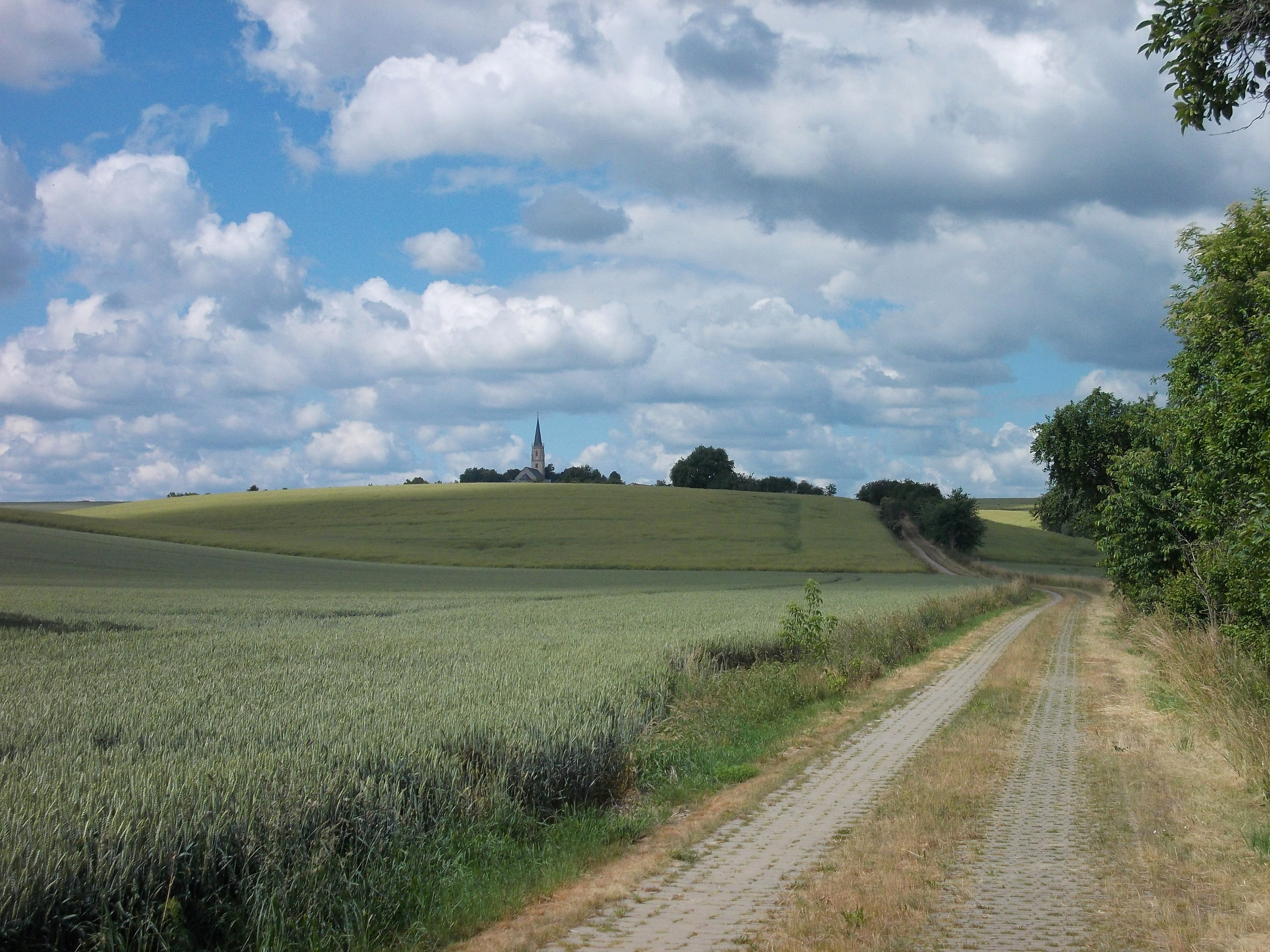 Landscape near Wantewitz (Priestewitz, Meissen district, Saxony)